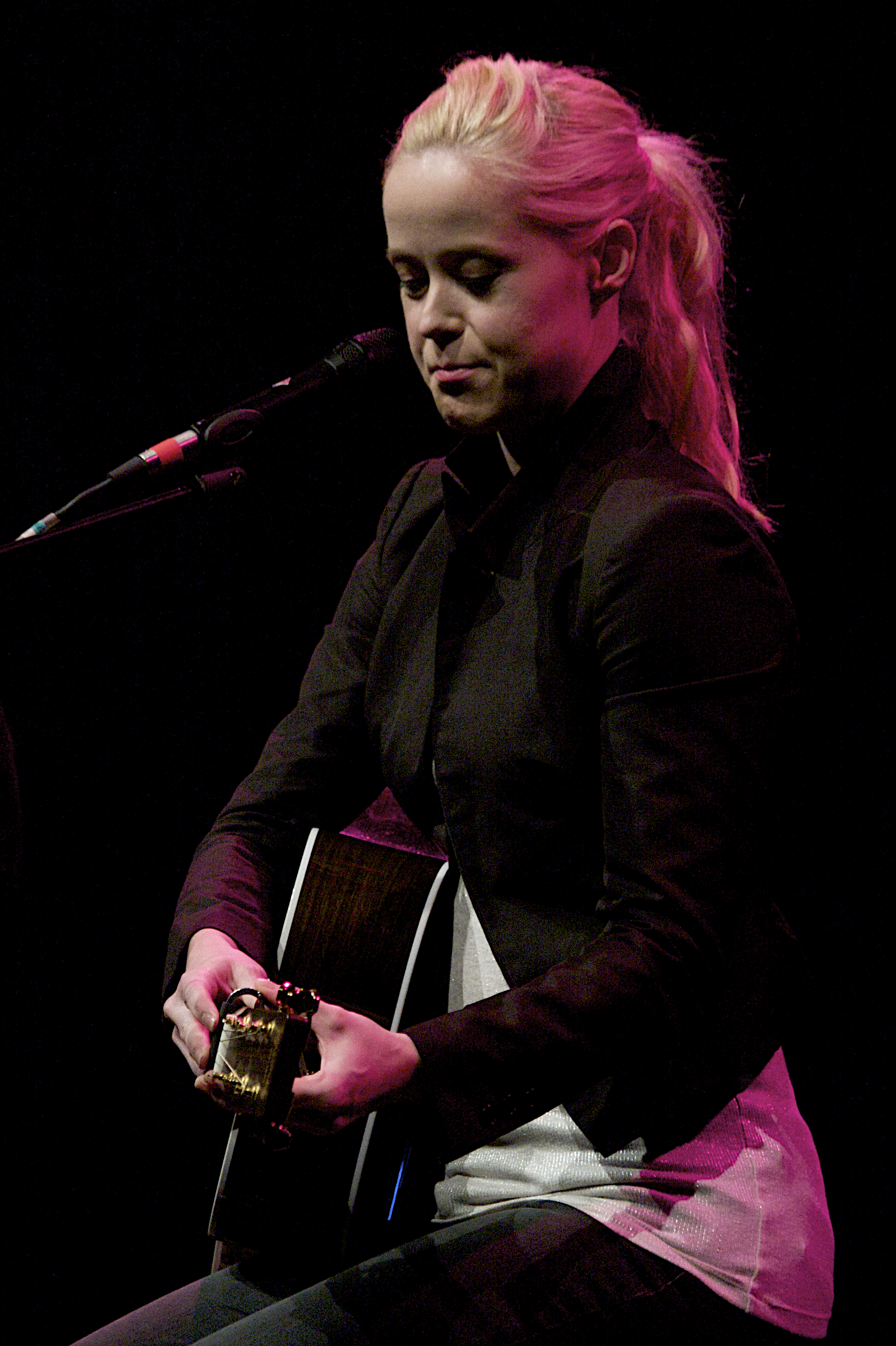 Danish singer/songwriter, Tina Dickow.